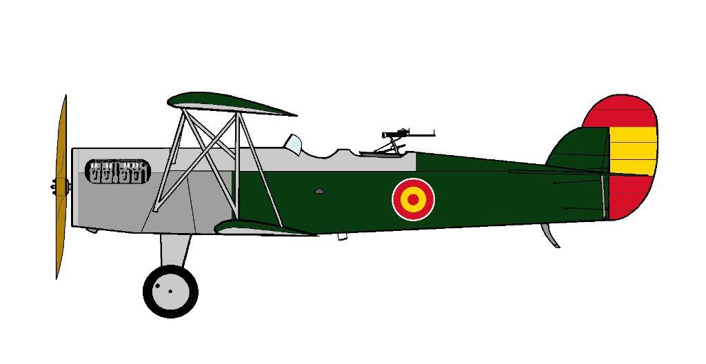 Loring R-1 of the Aeronautica Militar ca. 1927